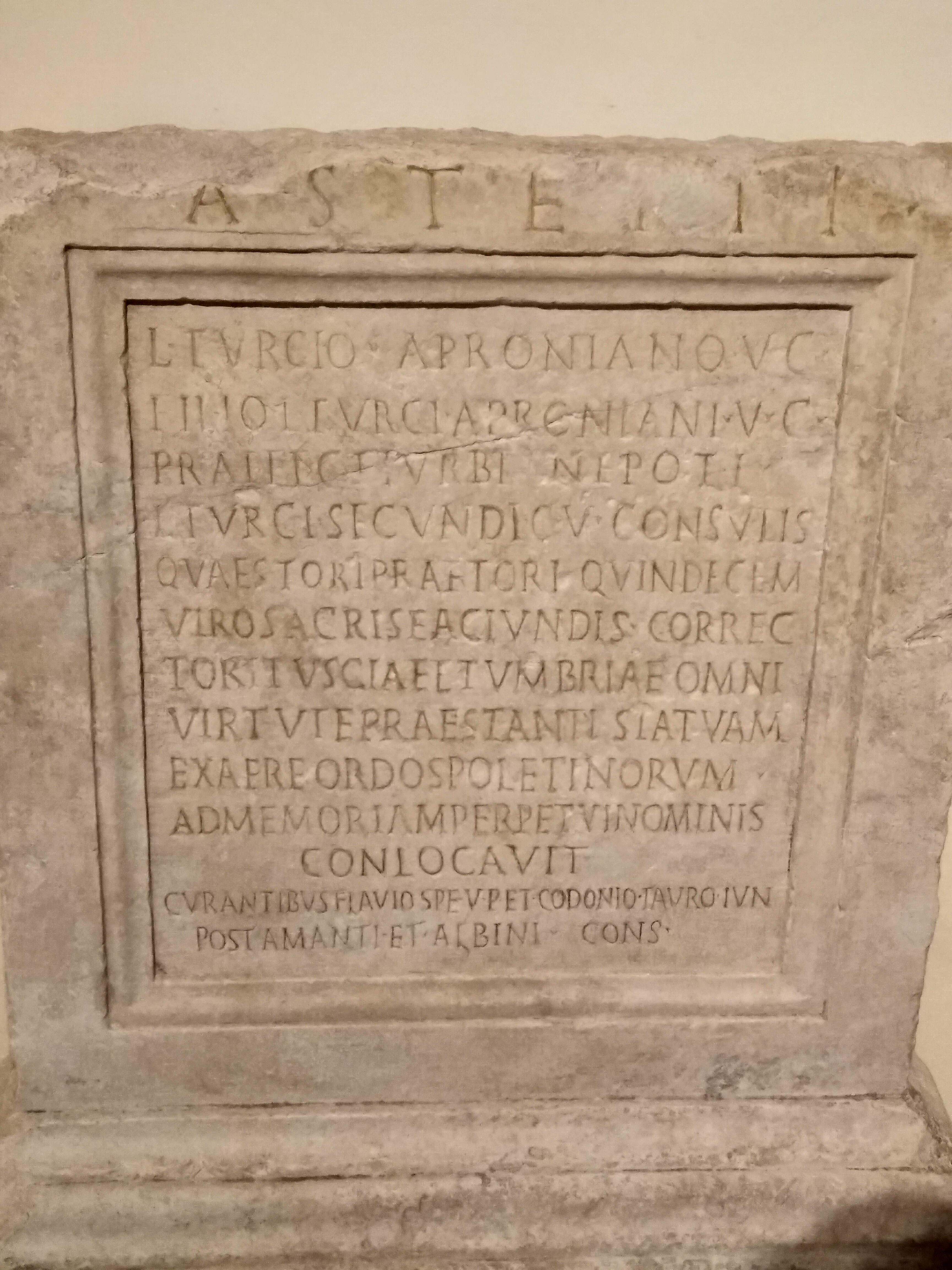 Base to the bronze statue to Lucius Turcius Apronianus Asterius CIL 06, 01768 Roma, Musei Capitolini, piano terra, III stanza a destra, NCE 2545